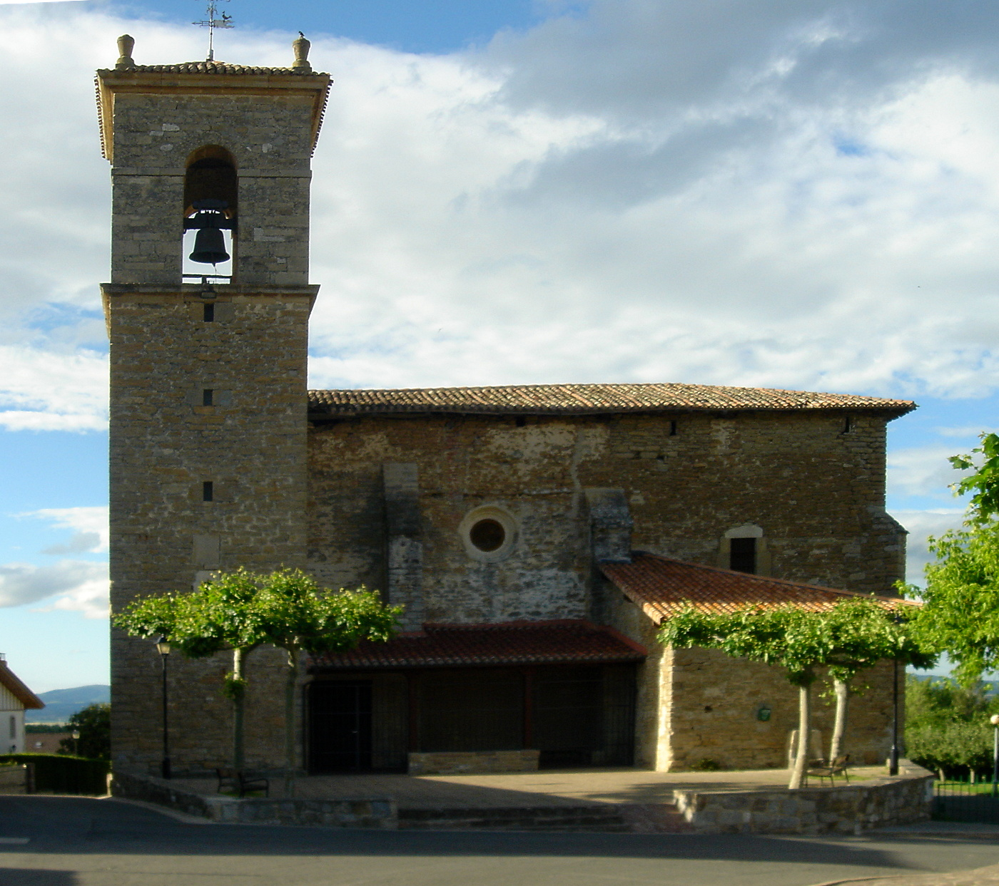 Berroztegieta (Vitoria-Gasteiz, Araba, Basque Country, Spain)